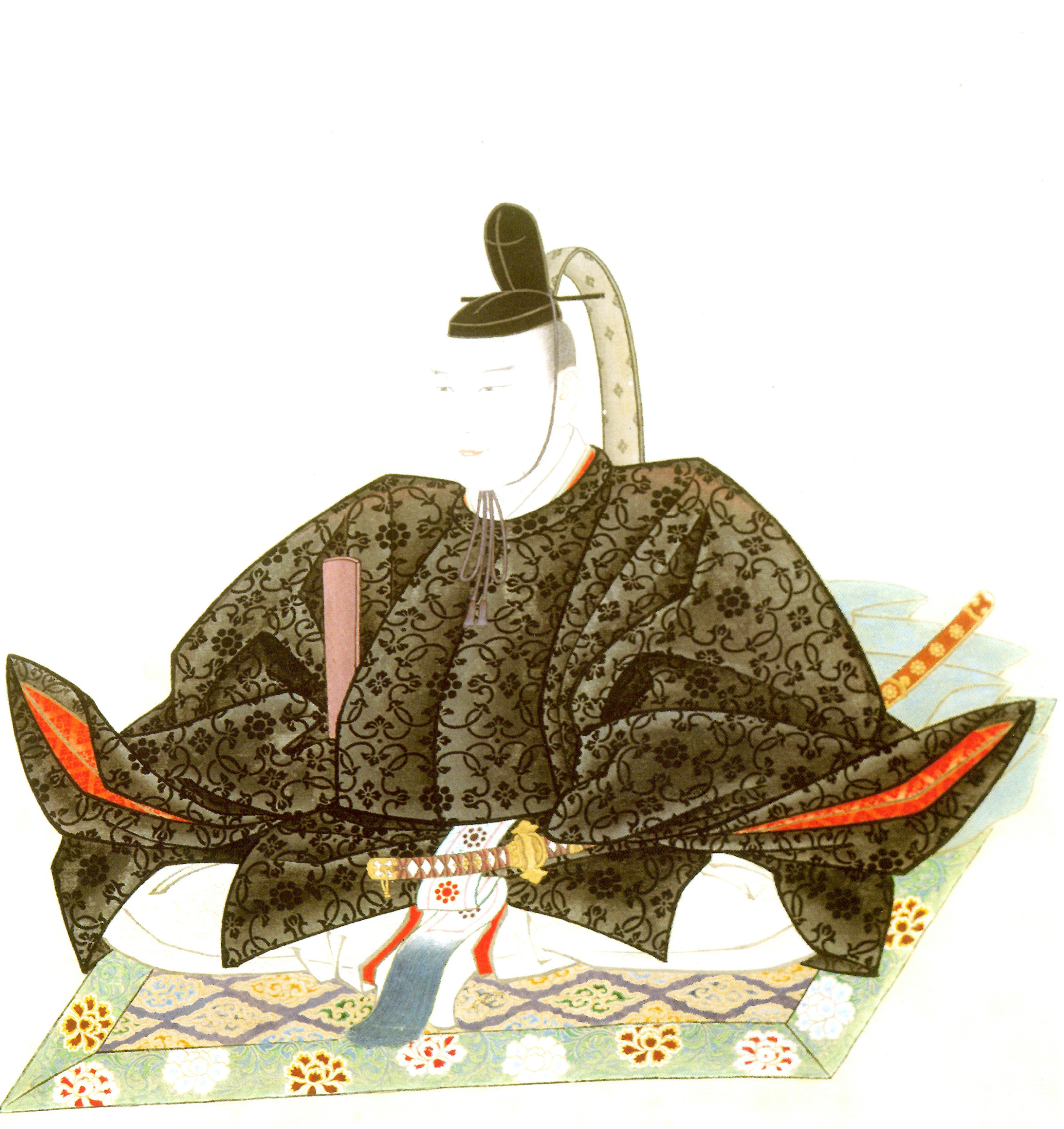 Portrait of Matsudaira Tadamasa